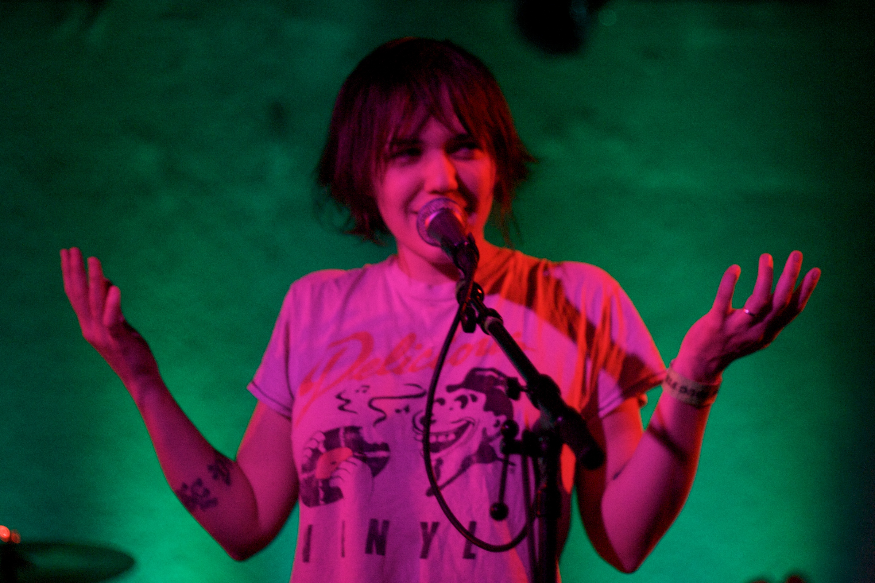 Emily Wells at the Doug Fir in Portland, Oregon.